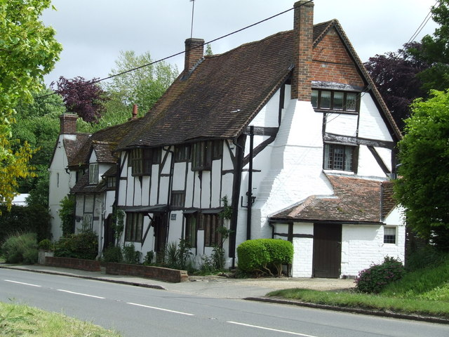 Blewbury House, Blewbury, Oxfordshire (formerly Berkshire)